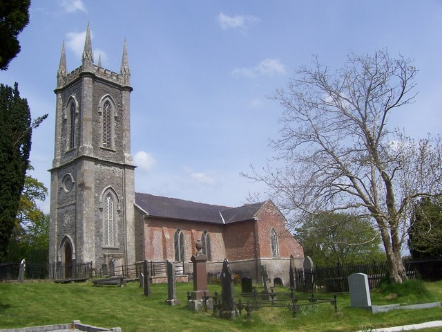 Dartry Church Dartrey Church may be an alternative spelling